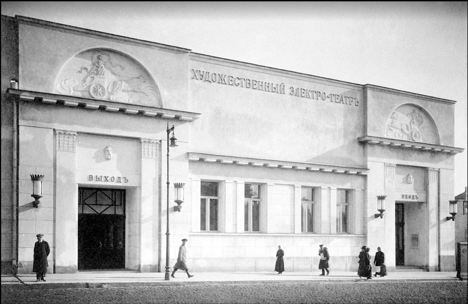 Moscow, Khudozhestvenny Cinema, by Fyodor Schechtel, 1912. Card of the Russian Empire.